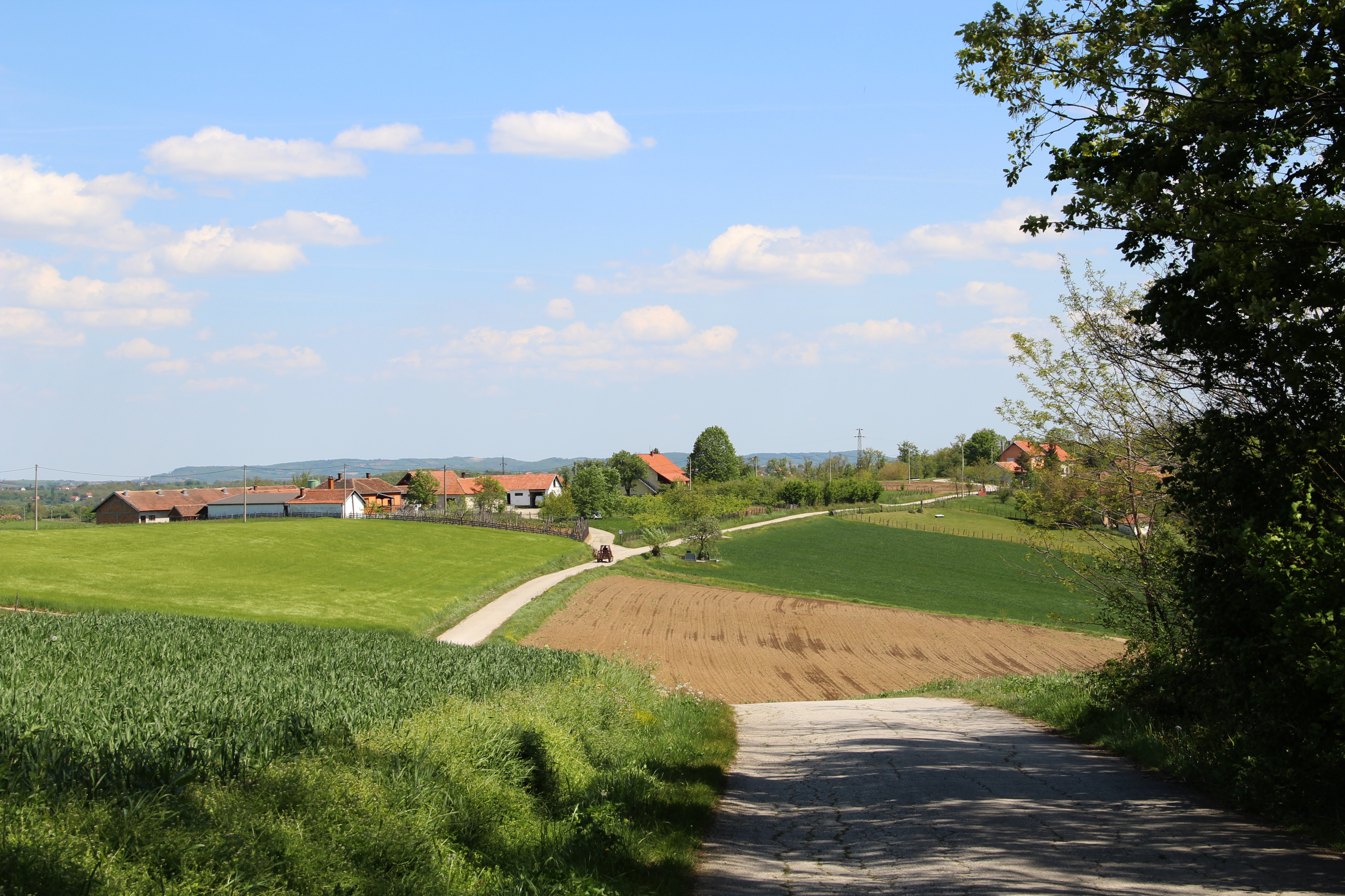 Zabrdica village - Municipality of Valjevo - Western Serbia - Panorama 3